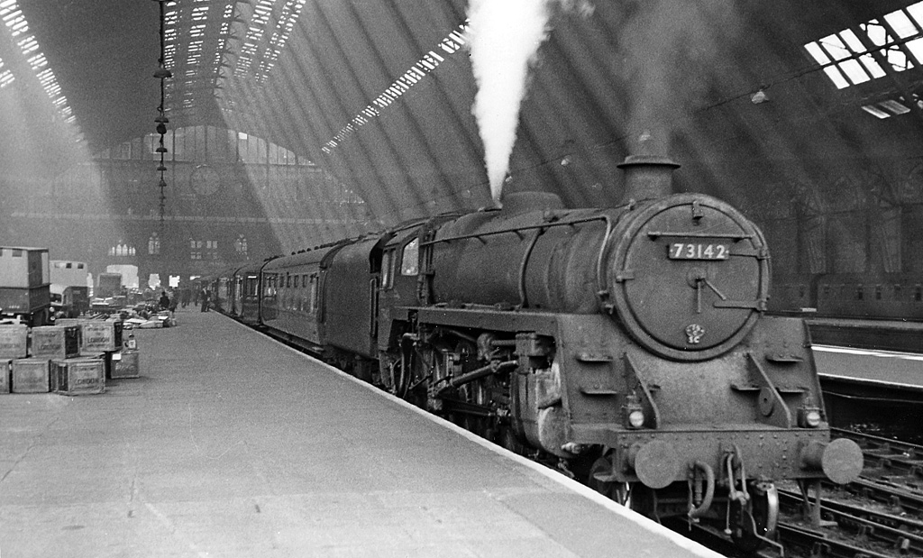 Inside St Pancras Station, 53 years ago. View southward, to buffer-stops on Platform 3. The 10.50 express to Leicester is waiting for me to join it, with BR Standard 5MT 4-6-0 (with Caprotti valve-gear) No. 73142. (Compare this with St Pancras International today!)